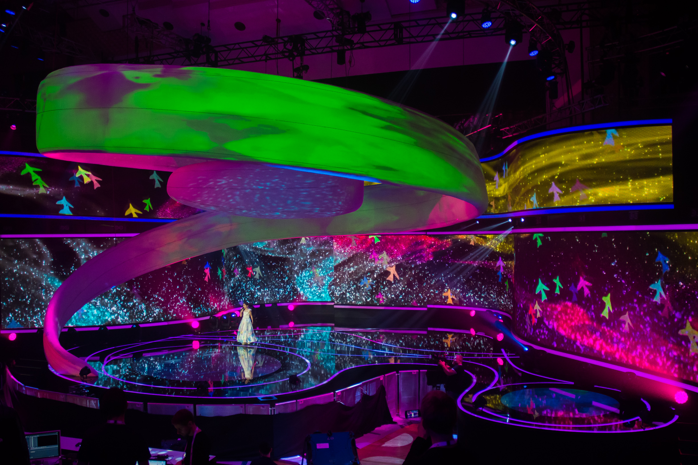 JESC 2016 stage at Mediterranean Conference Centre